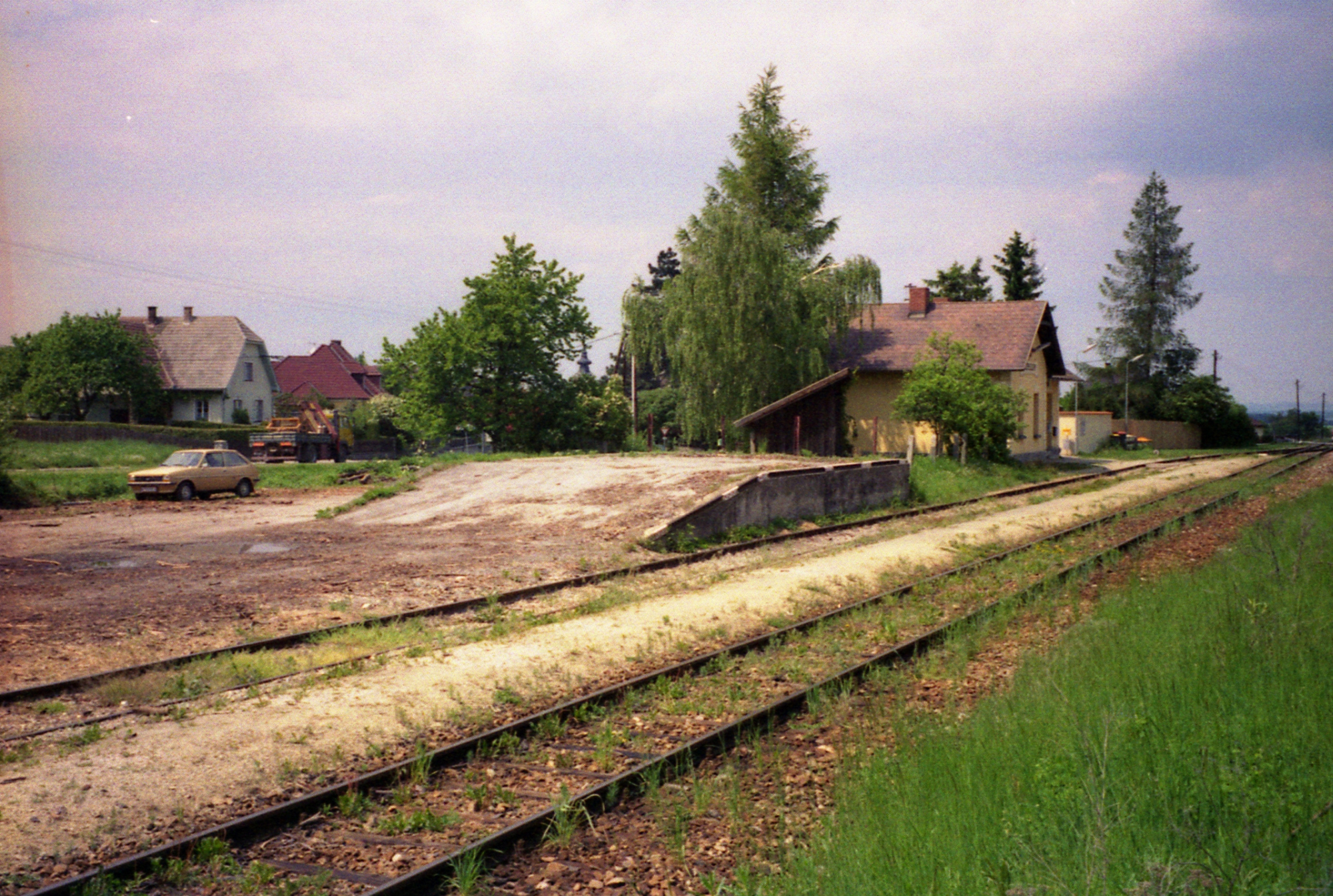 train station Zissersdorf located in Drosendorf-Zissersdorf, Lower Austria